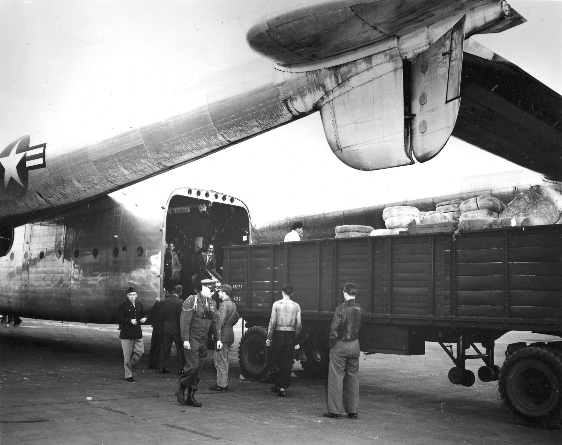 The first U.S. Air Force Fairchild C-82A Packet used during the Berlin Airlift is unloaded at Tempelhof Airport.